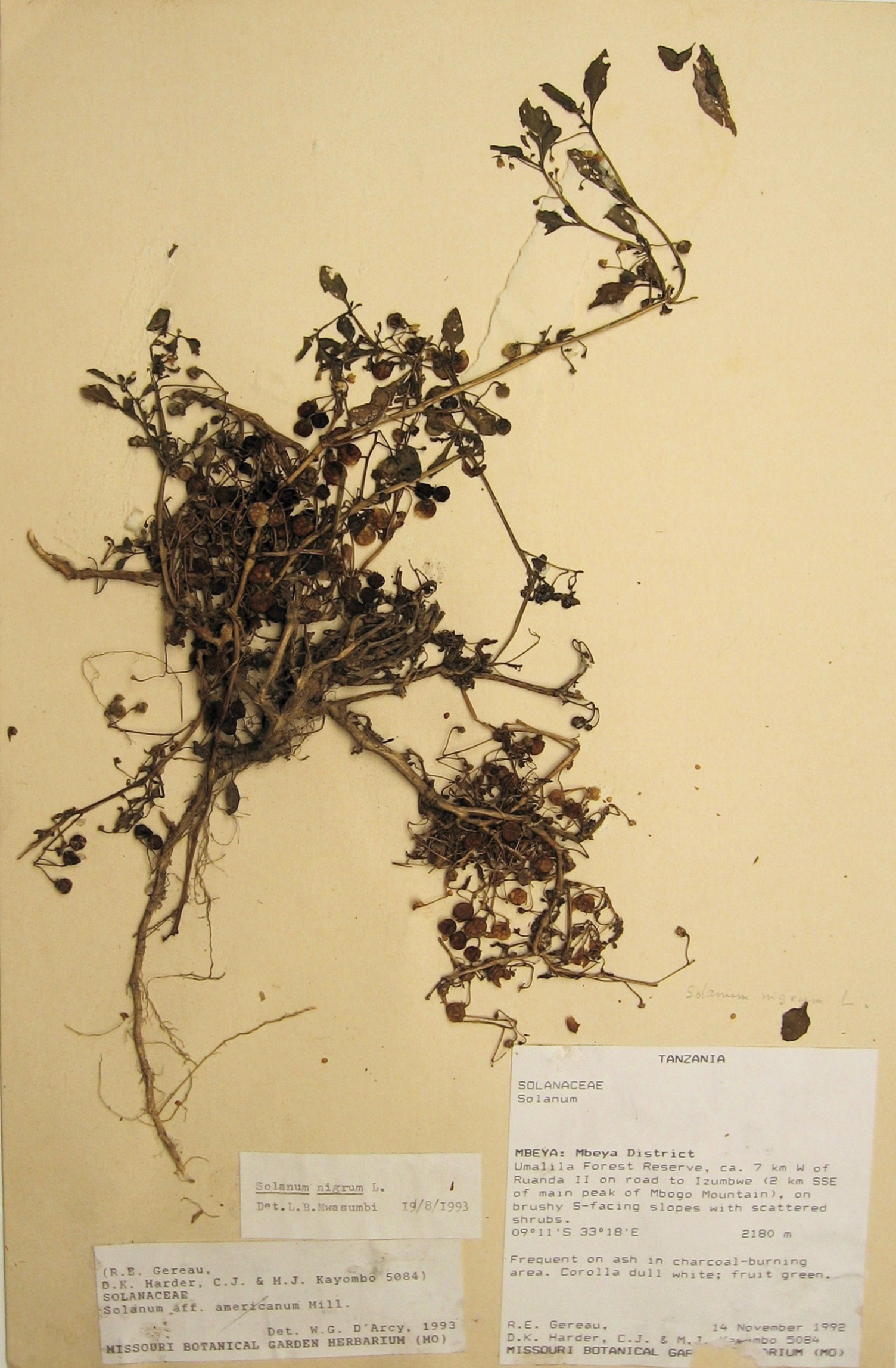 Holotype specimen of Solanum umalilaense Manoko